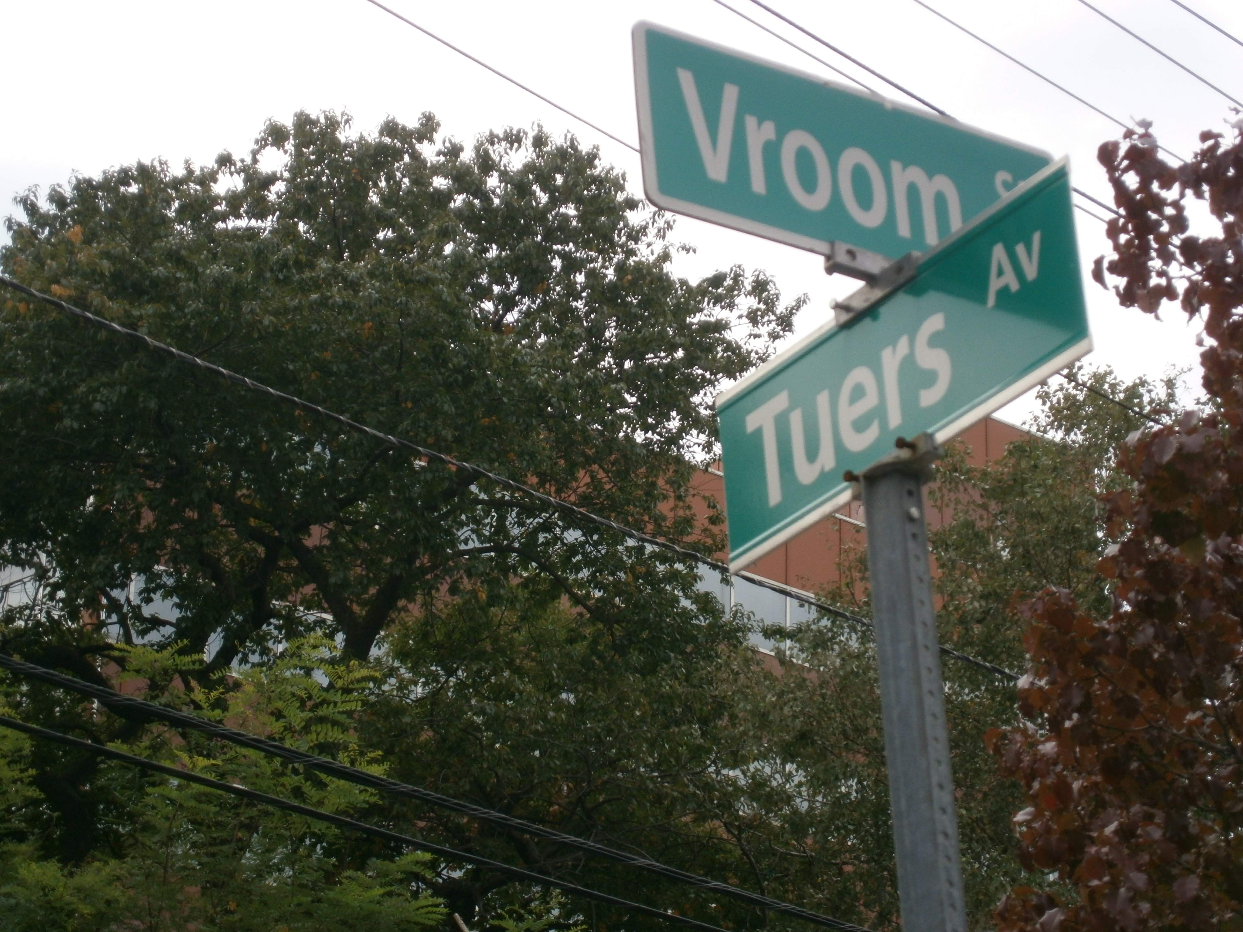 Tuers & Vroom near Bergen Square Jersey City recalls names of early settlers to Bergen, Netherland and Jane Tuers